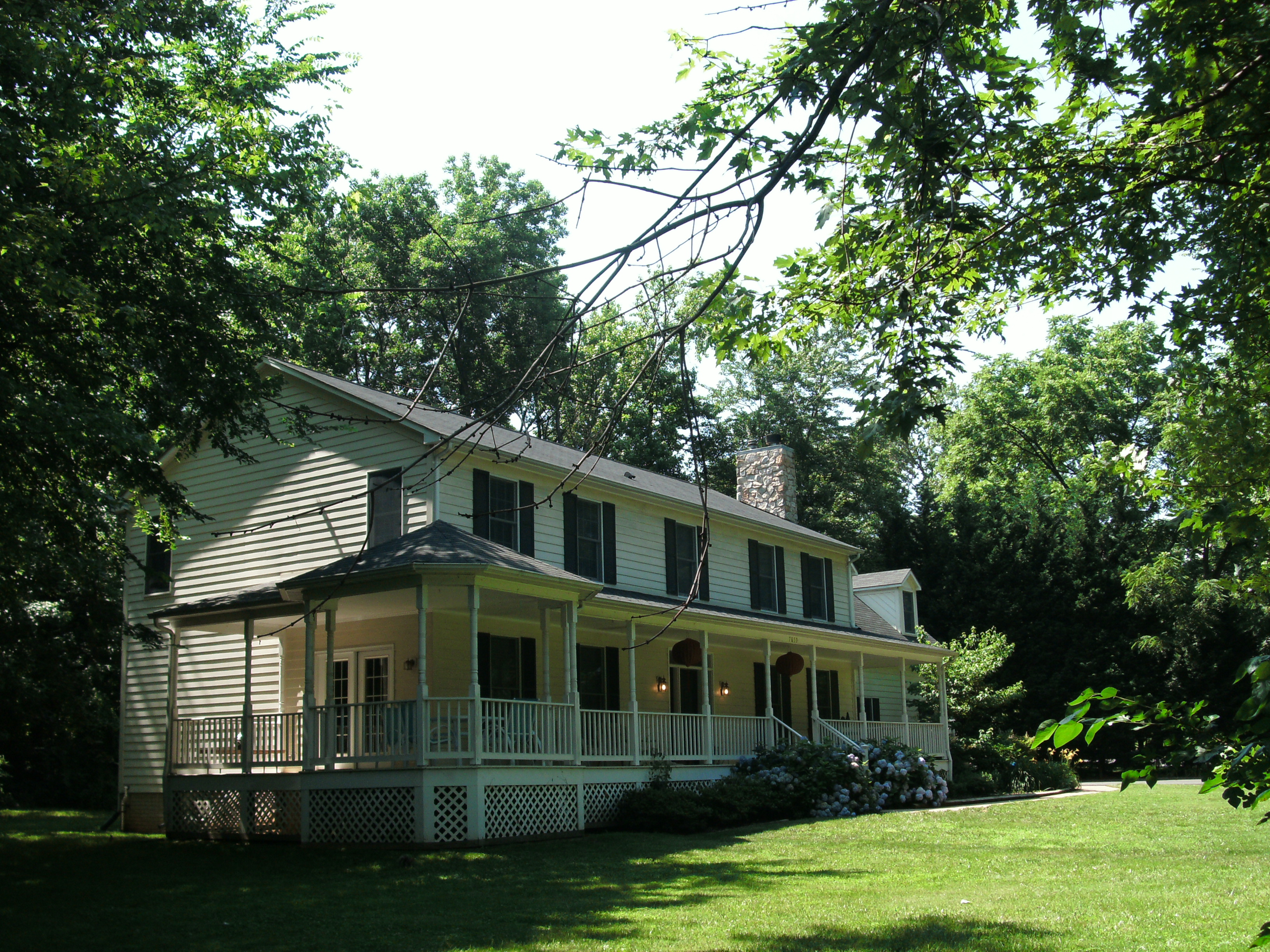 Image taken by me for Wikipedia in Fairfax County, Virginia.